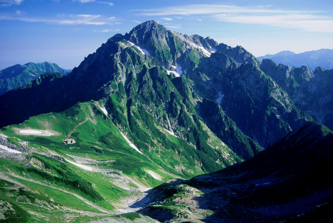 Mount Tsurugi, Hut Ken and Hut Tsurugisawa seen from Bessan in Hida Mountains, Japan.